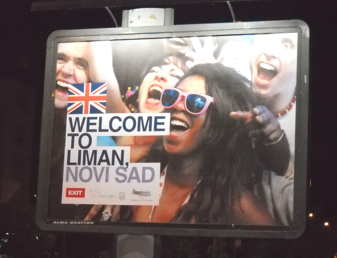 Welcome to Liman - billboard in English language in Liman neighborhood of Novi Sad, posted during EXIT 2010 music festival.